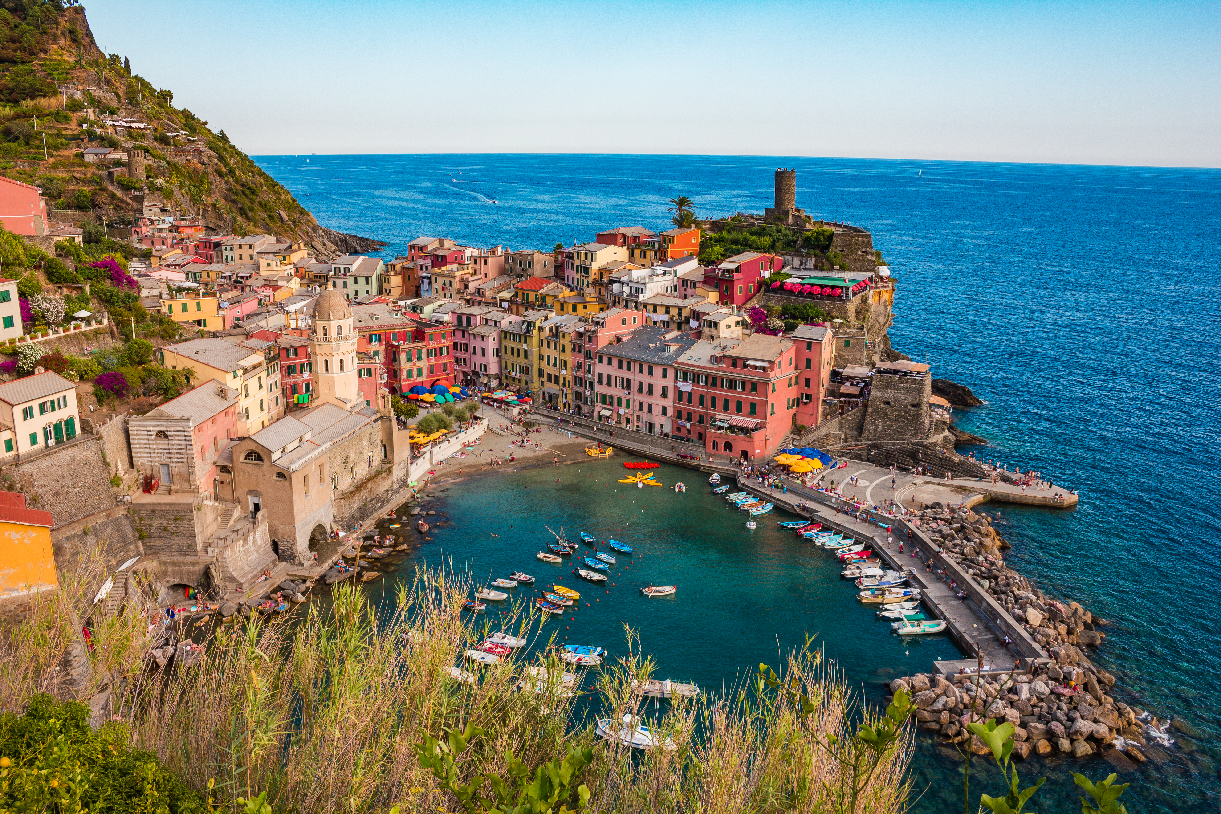 The hamlet of Vernazza in Liguria, Italy.